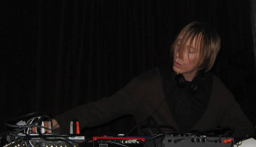 The swedish electronic music artist Andreas Tilliander performing at Decibel Festival, Seattle, USA, September 17, 2006